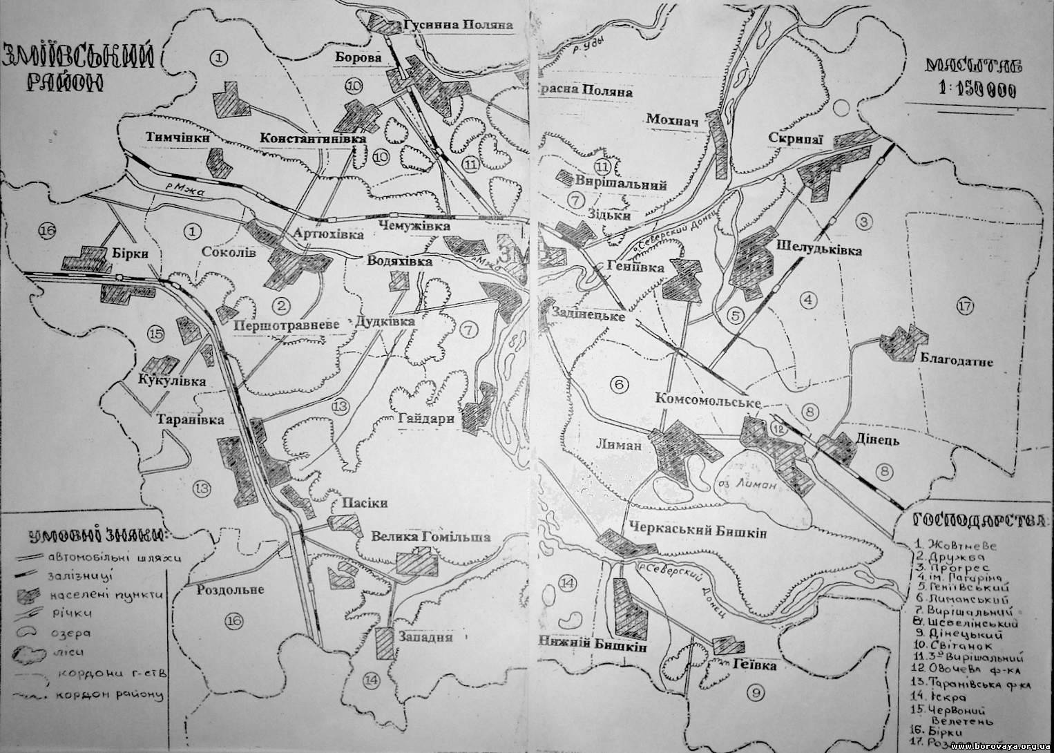 Карта хозяйств Змиевского района